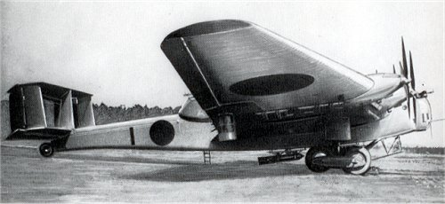 This is a Mitsubishi Ki-20 which was a japanese heavy bomber before WW2.